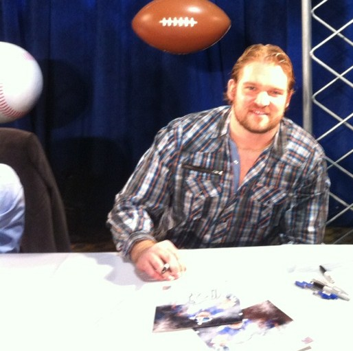 Adam Koets at an autograph signing.